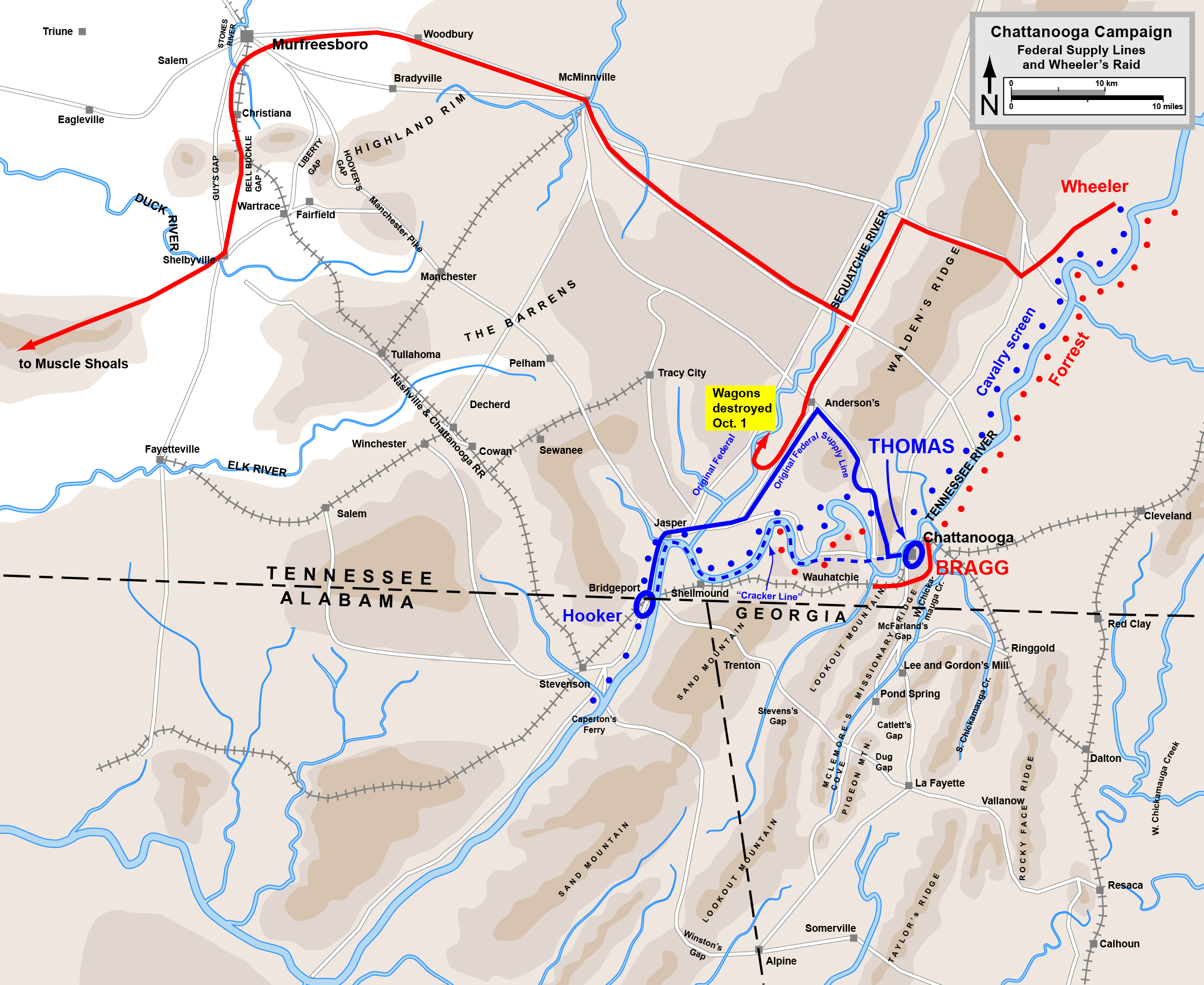 Map of part of the Chattanooga Campaign (Federal supply lines and Wheeler's raid) of the American Civil War. Drawn in Adobe Illustrator CS5 by Hal Jespersen. Graphic source file is available at . This is a replacement file for the recently uploaded Chattanooga_Campaign_Supply+Walker.png, which was uploaded with the wrong name.